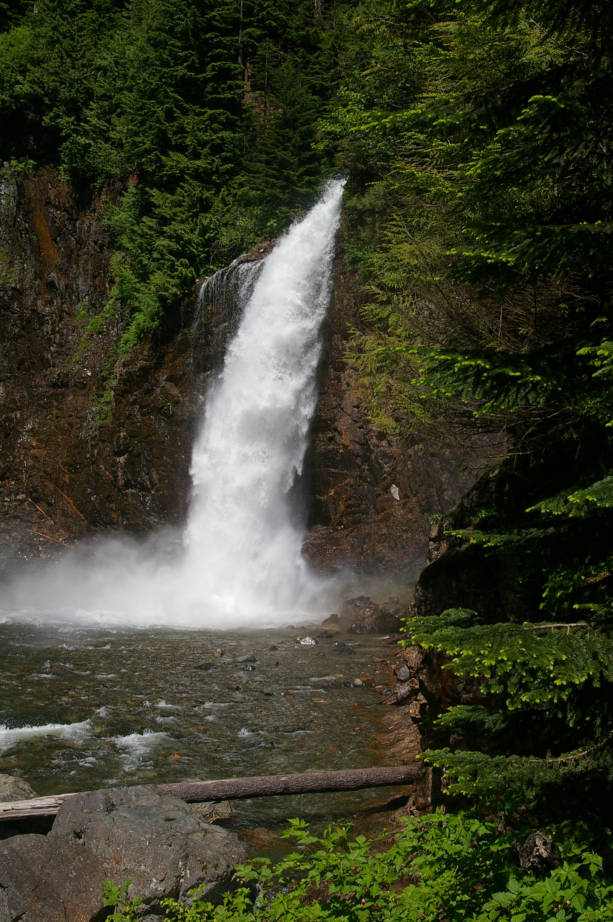 Franklin Falls, Washington. This waterfall lies east of North Bend, Washington by about 17 miles off of Interstate 90. I took this photograph wile on a hiking trip in June 2006. (CC) 2007 Konrad Roeder. The Photo was rotated it 90 degrees to the left in PhotoShop.